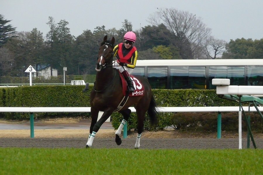 Rulership20120324